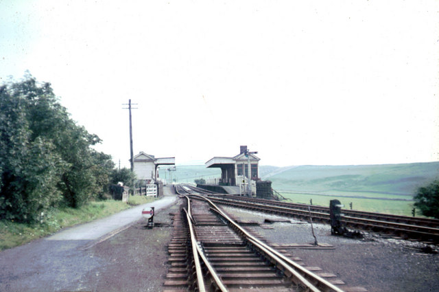 Parsley Hay railway station Original description: Parsley Hay Station This isolated station was the junction between the Cromford and High Peak line and the line to Ashbourne. Now reincarnated as part of the Tissington Trail